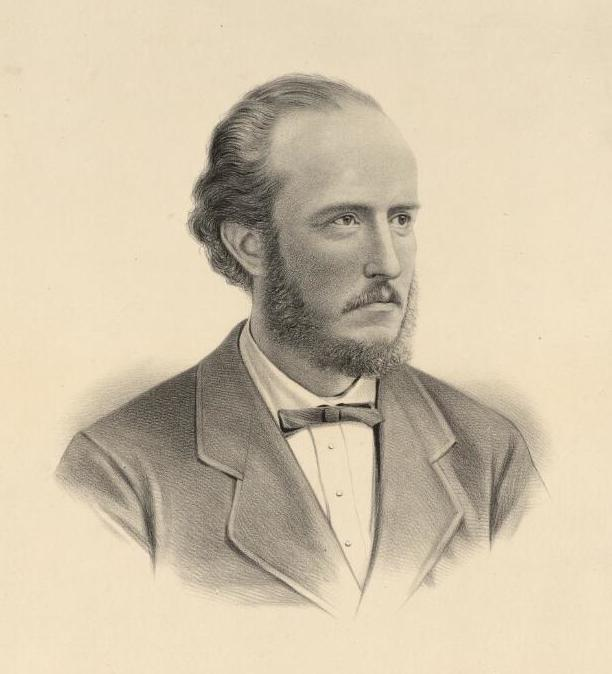 A portrait from the Welsh Portrait Collection at the National Library of Wales. Depicted person: John Roberts – Welsh Liberal politician, born 1835